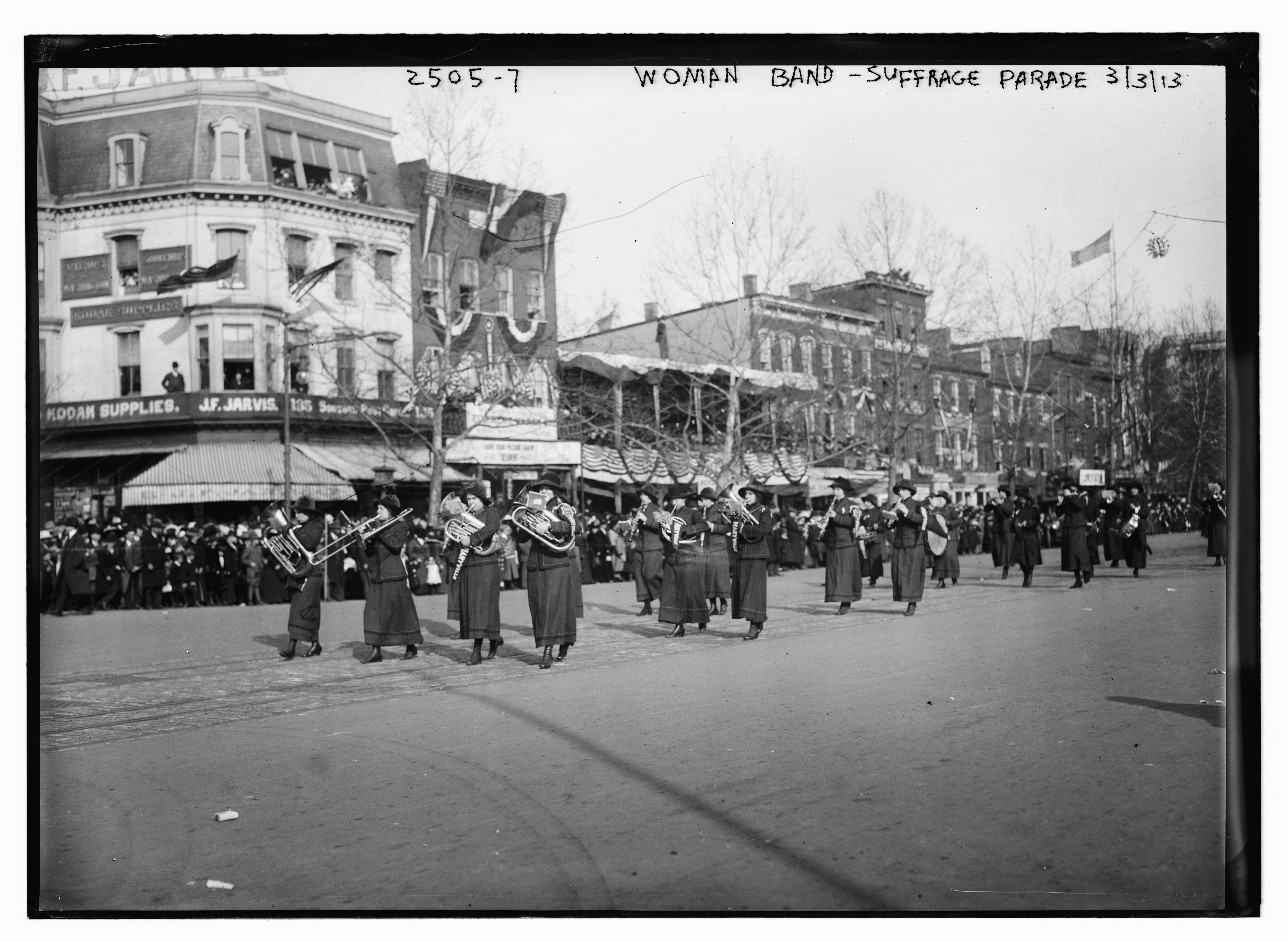 Bain News Service,, publisher. Woman band - Suffrage parade 1913 March 3 (date created or published later by Bain) 1 negative : glass ; 5 x 7 in. or smaller. Notes: Title from unverified data provided by the Bain News Service on the negatives or caption cards. Photo taken at the National American Woman Suffrage Association parade held in Washington, D.C., March 3, 1913. (Source: Flickr Commons project, 2008) Forms part of: George Grantham Bain Collection (Library of Congress). Format: Glass negatives. Repository: Library of Congress, Prints and Photographs Division, Washington, D.C. 20540 USA, General information about the Bain Collection is available at Higher resolution image is available (Persistent URL): Call Number: LC-B2- 2505-7